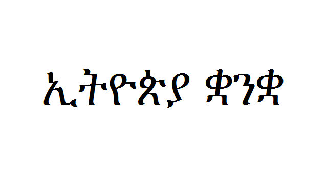 The word "ye’ītiyop’iya k’wanik’wa" written in Amharic Fidel. The text means "Ethiopia language" in Amharic.